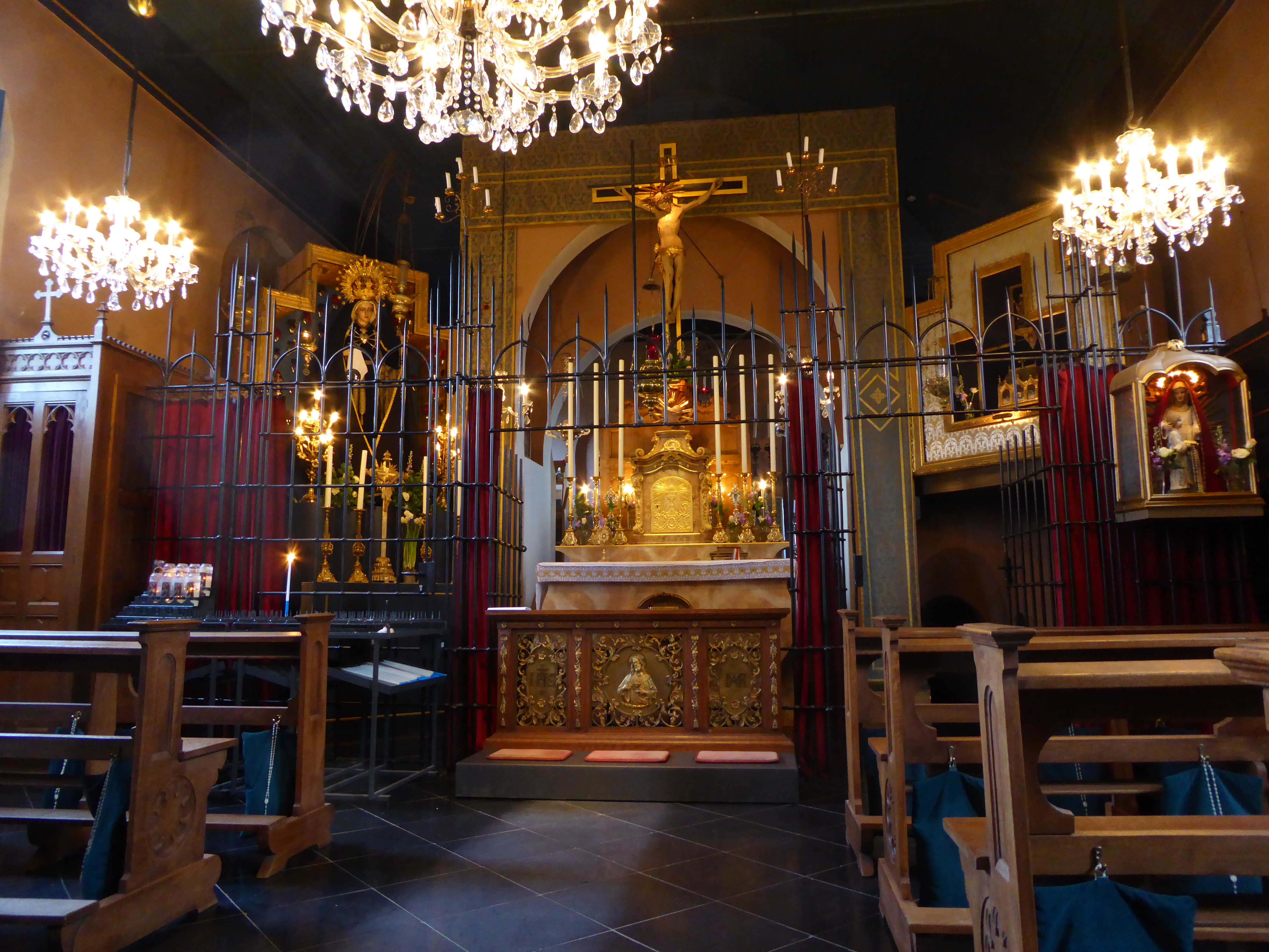 Interior of the shrine of Our Lady the Garden Enclosed in the Dutch pilgrimage place Warfhuizen